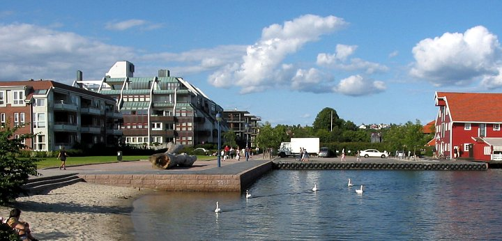 Kristiansand, Norway, 2004; photo taken from Gravane, showing part of Strandpromenaden. Apartment building to the left is Markensgate 1A. Red building to the right is the seafood restaurant Sjøhuset (Sea House)